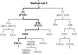 The cladogram of Elb1a ancestry back to haplogroup E.